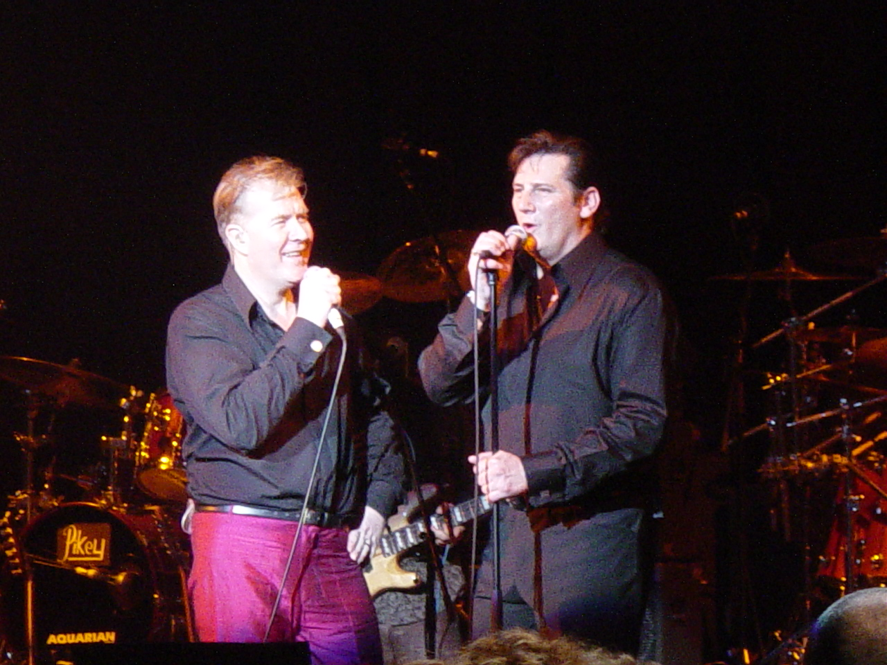 Martin Fry (left) and Tony Hadley, English pop music singers